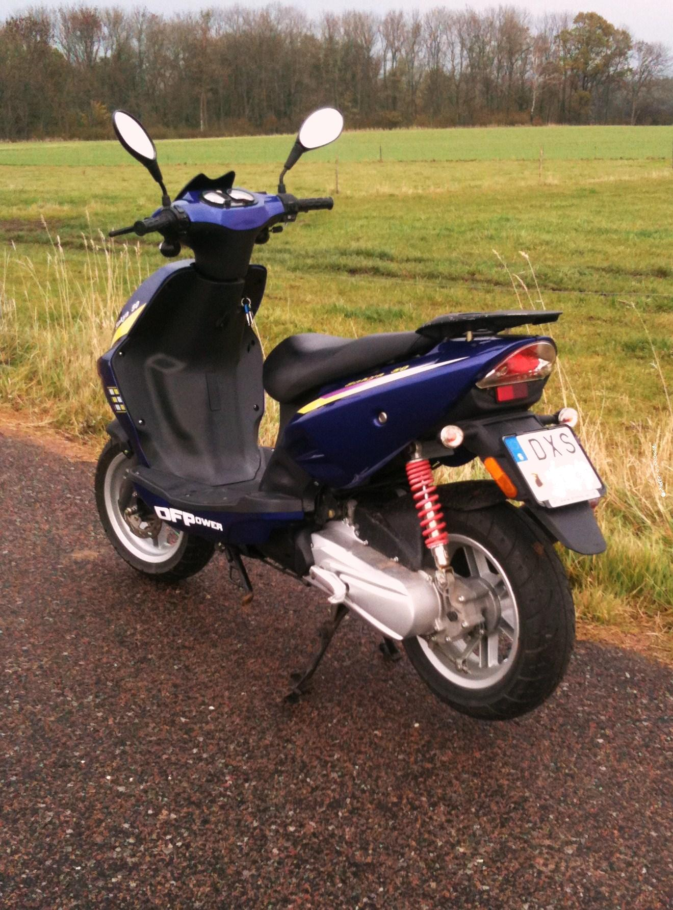 A swedish moped "class I", maximum speed 45 kph.